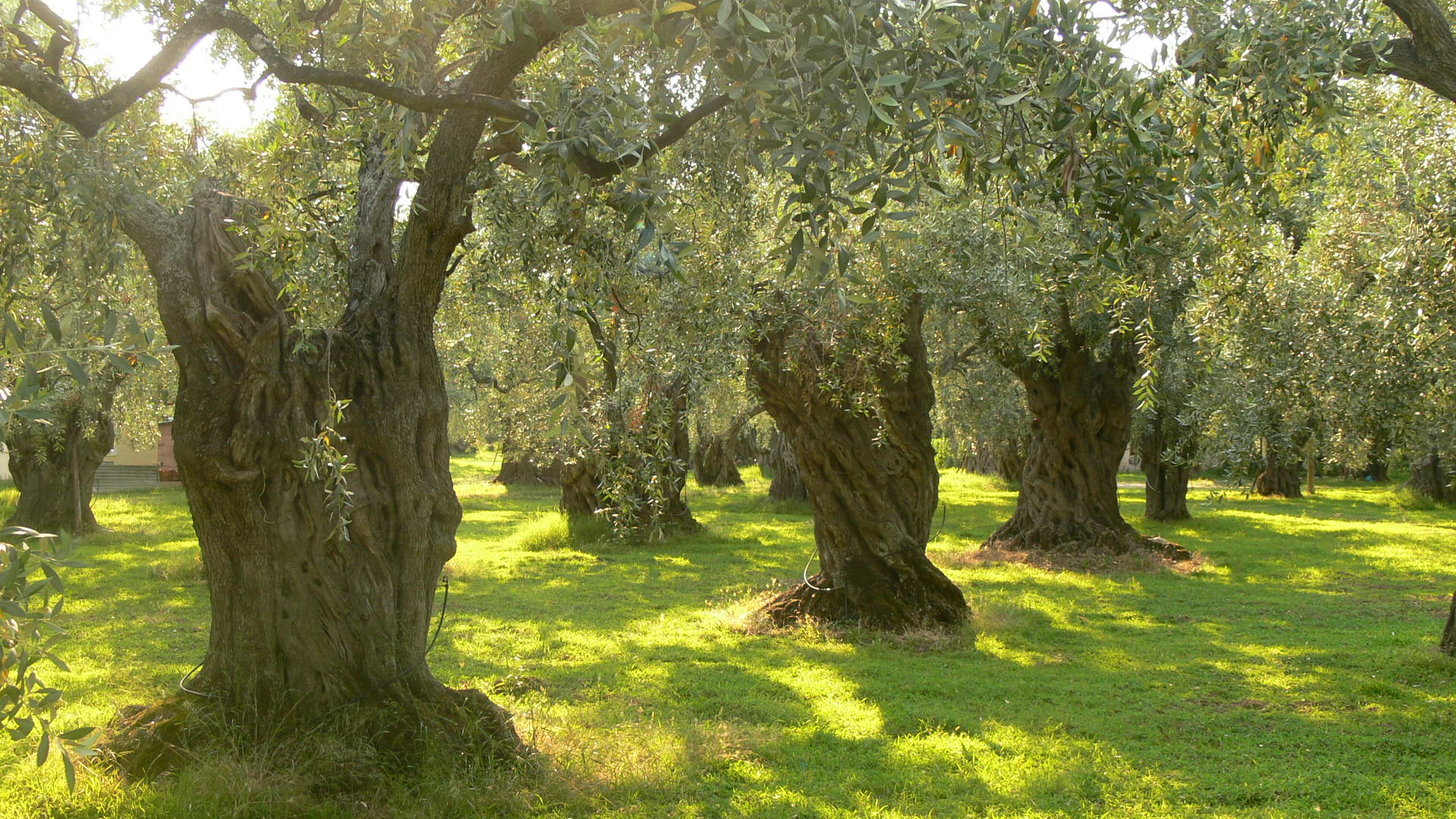 Old olive trees on Thasos